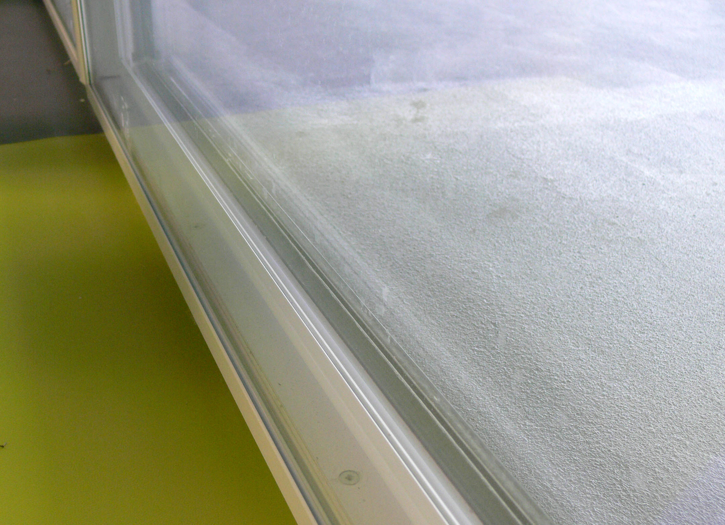 Down part of au Special windows in a Retirement home (for energy efficiency), in Trith-Saint-Léger, in north of France, (dept : 59) in Nord-Pas-de-Calais region, made with ecological principles.